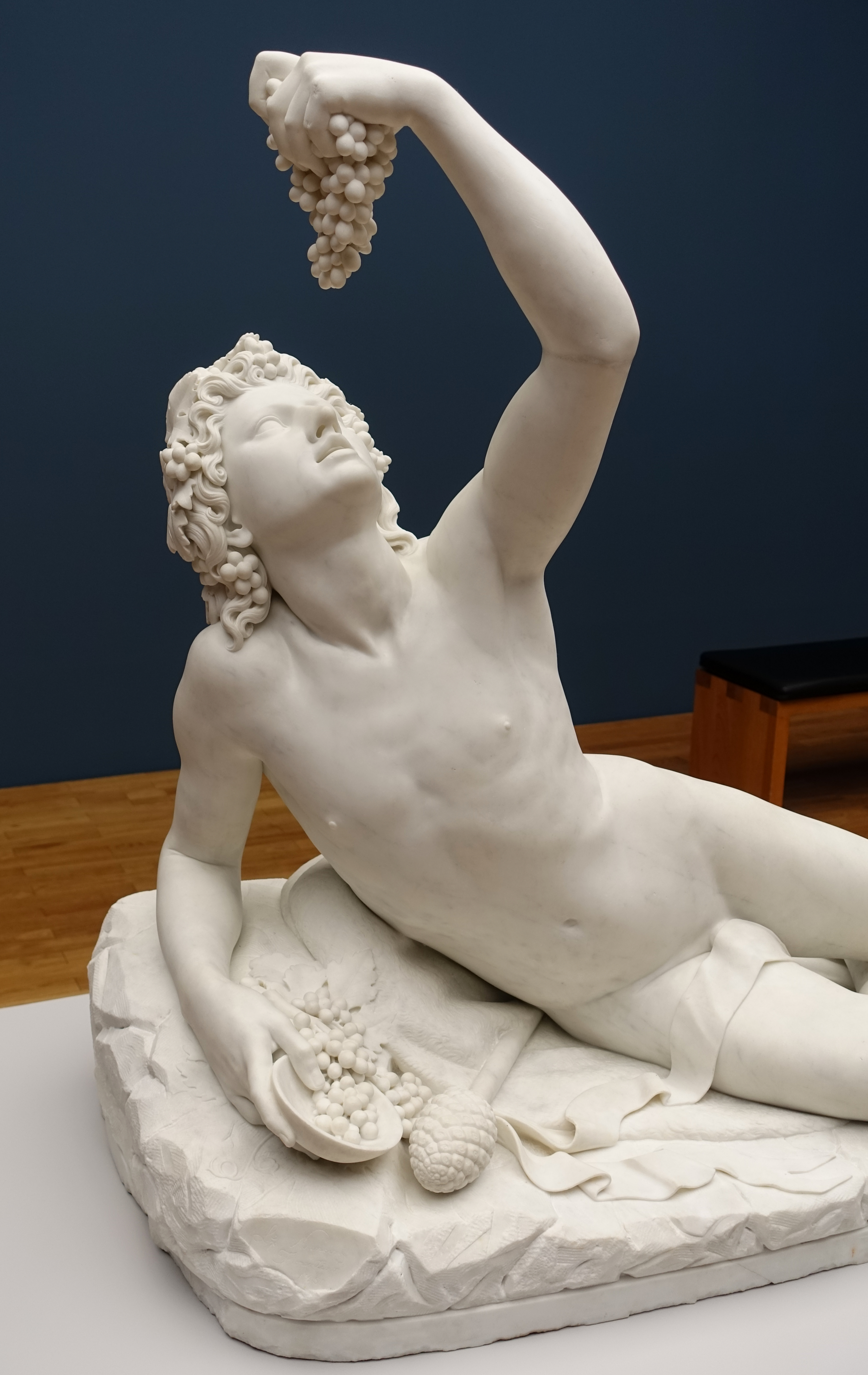 Bacchus by Lorenzo Nencini - Villa Vauban - Luxembourg City, Luxembourg.